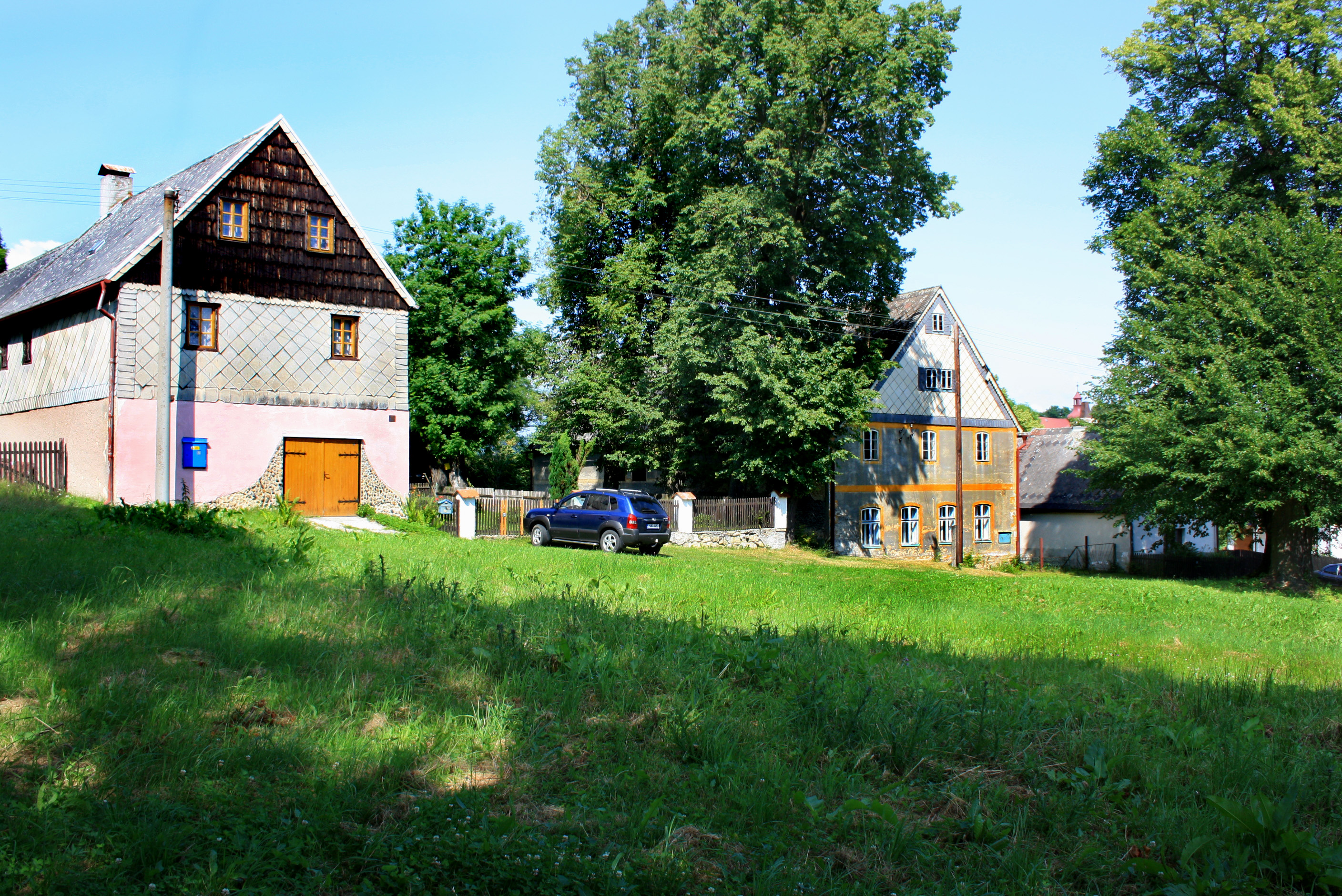 Common in Květnov, part of Blatno, Czech Republic